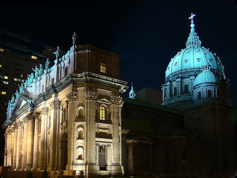 Cathedral-Basilica Mary Queen of the World, Montreal, Quebec, Canada.